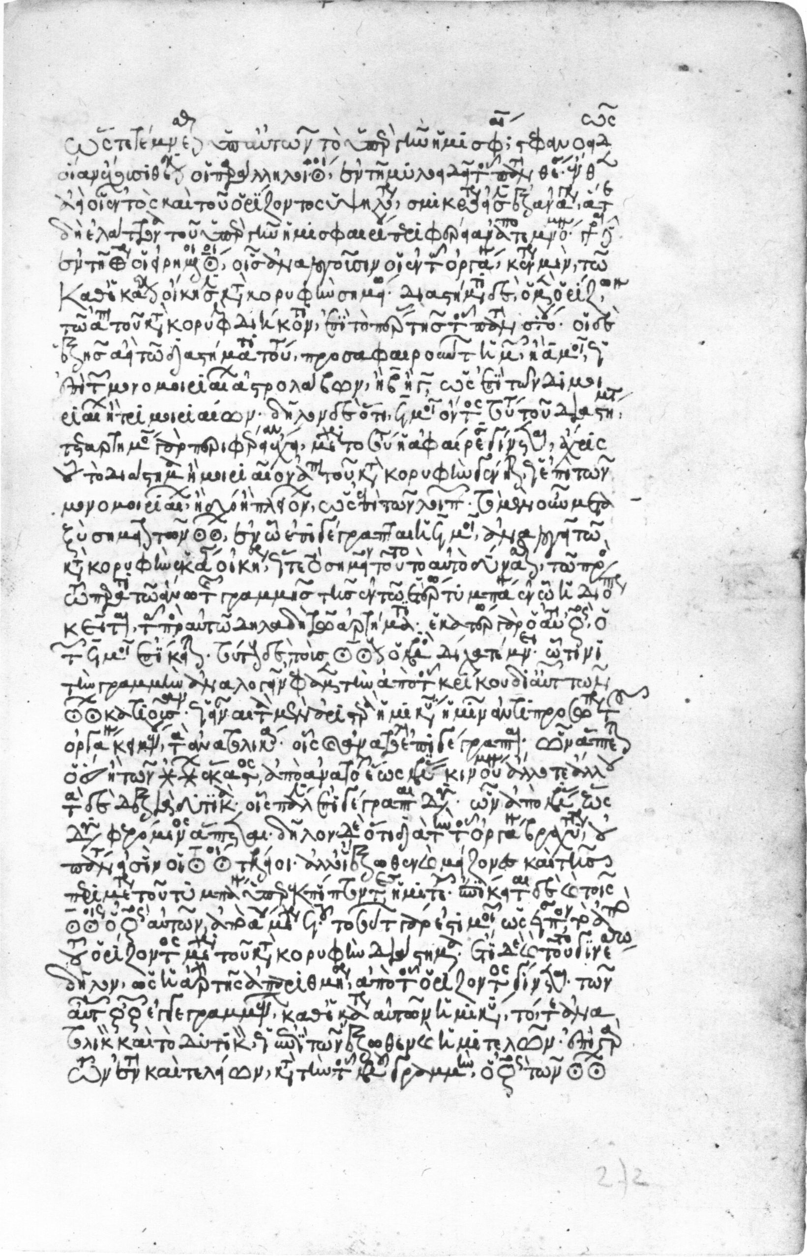 John Philoponus, On the Use and Construction of the Astrolabe, in ms. Florence, Biblioteca Medicea Laurenziana, Plut. 28,16, fol. 272r.